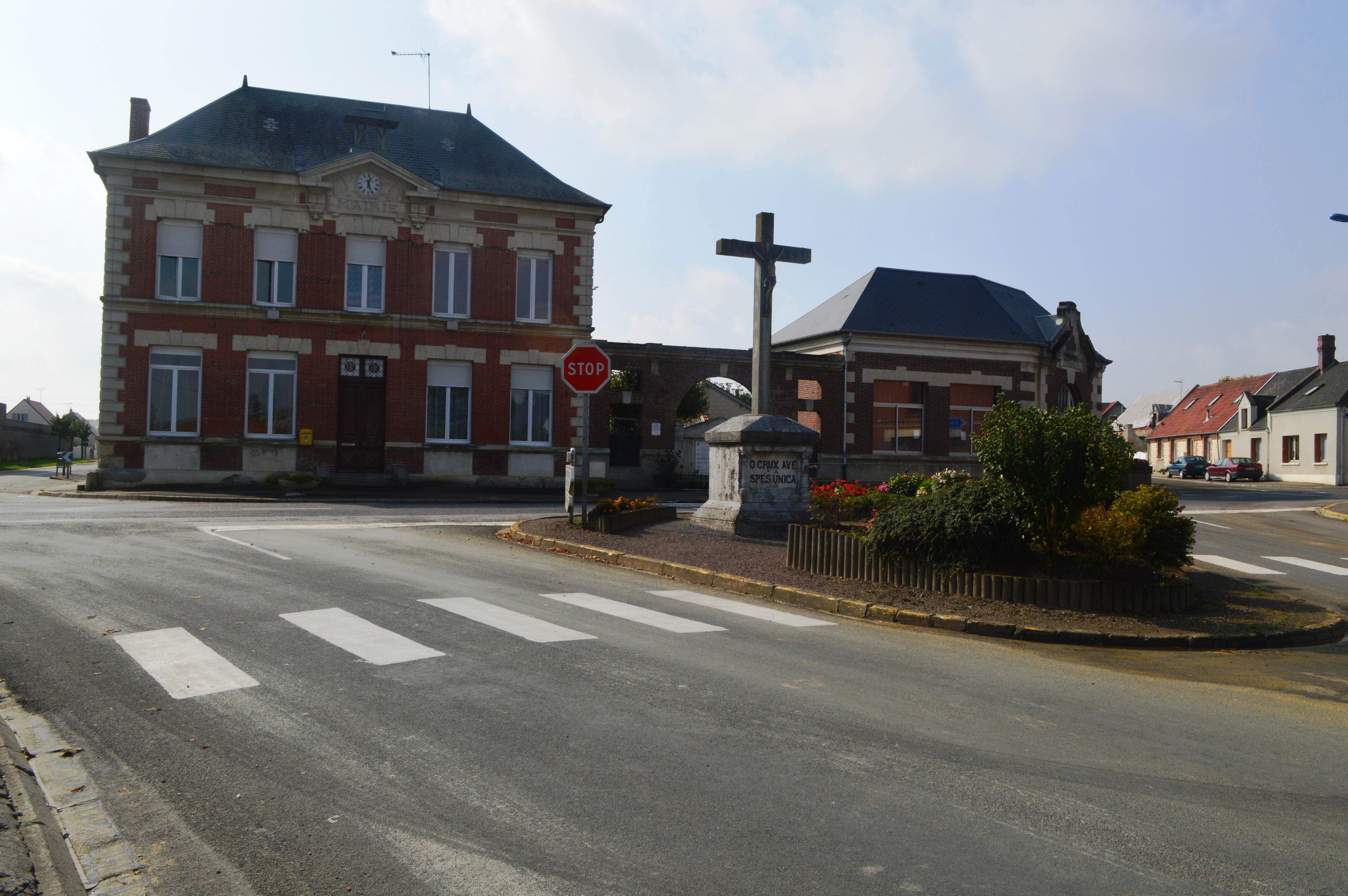 The Town Square